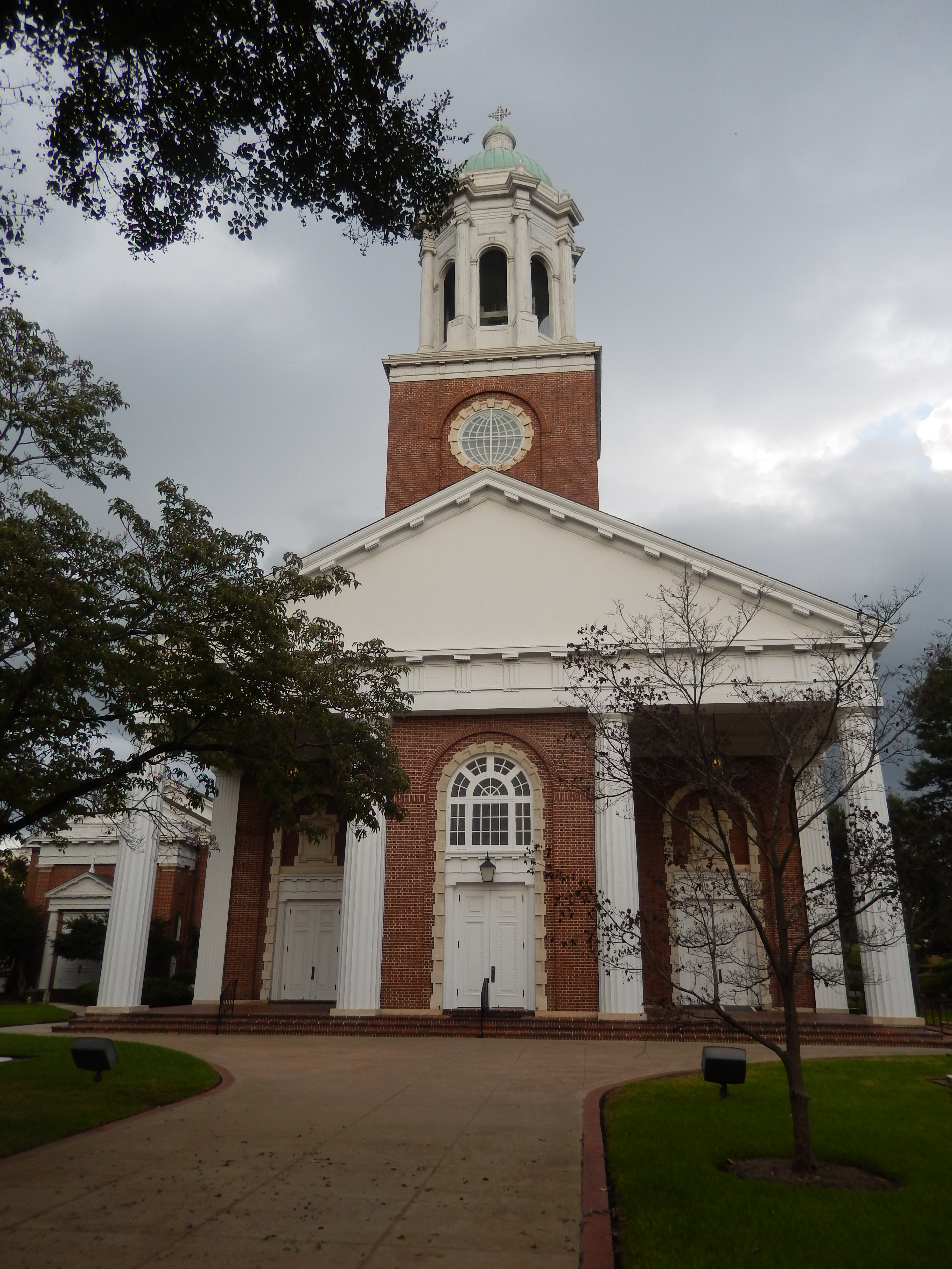 St. Paul